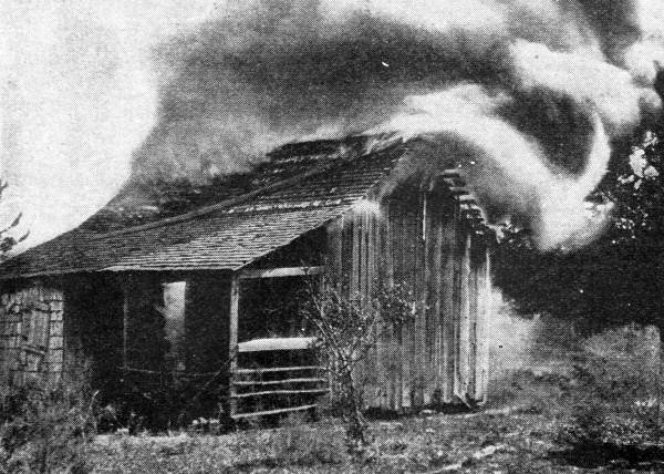 The image was originally published in Literary Digest magazine on January 20, 1923, referencing the destruction of the town of Rosewood, Florida. Its veracity is somewhat disputed. Eva Jenkins, a Rosewood survivor, testified that she knew of no such structure in the town, that it was perhaps an outhouse. Rosewood houses were painted and most of them neat. However, the Florida Archives lists the image as representing the burning of a structure in Rosewood. (D'Orso, Michael (1996). Like Judgment Day: The Ruin and Redemption of a Town Called Rosewood, Grosset/Putnam. ISBN 0399141472, p. 238–239) (Jones, et al, "Incident at Rosewood", p. 57.)